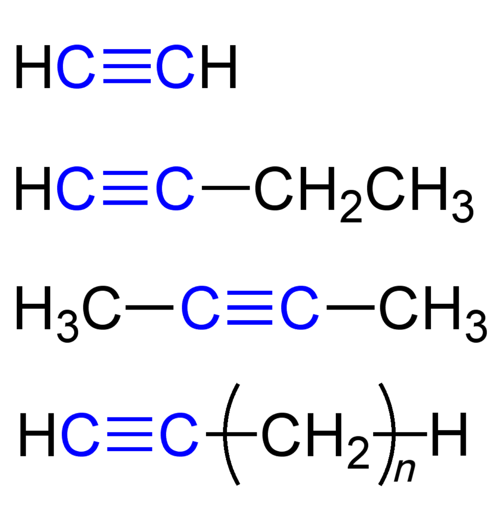 Some alkynes' formulae